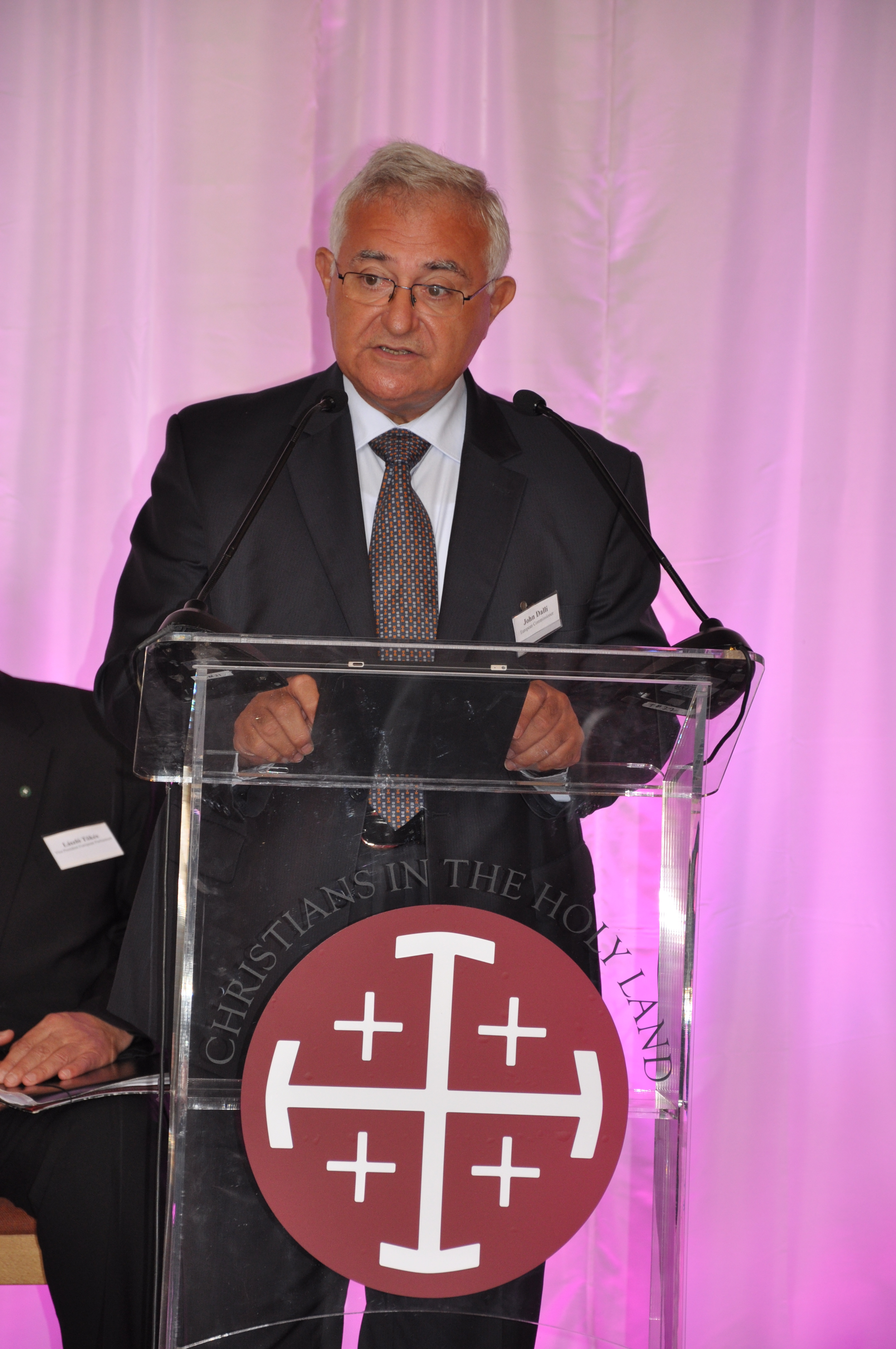 John Dalli (Malta), European Commissioner for Health and Consumer Policy. At the Christians in the Holy Land Conference July 2011.